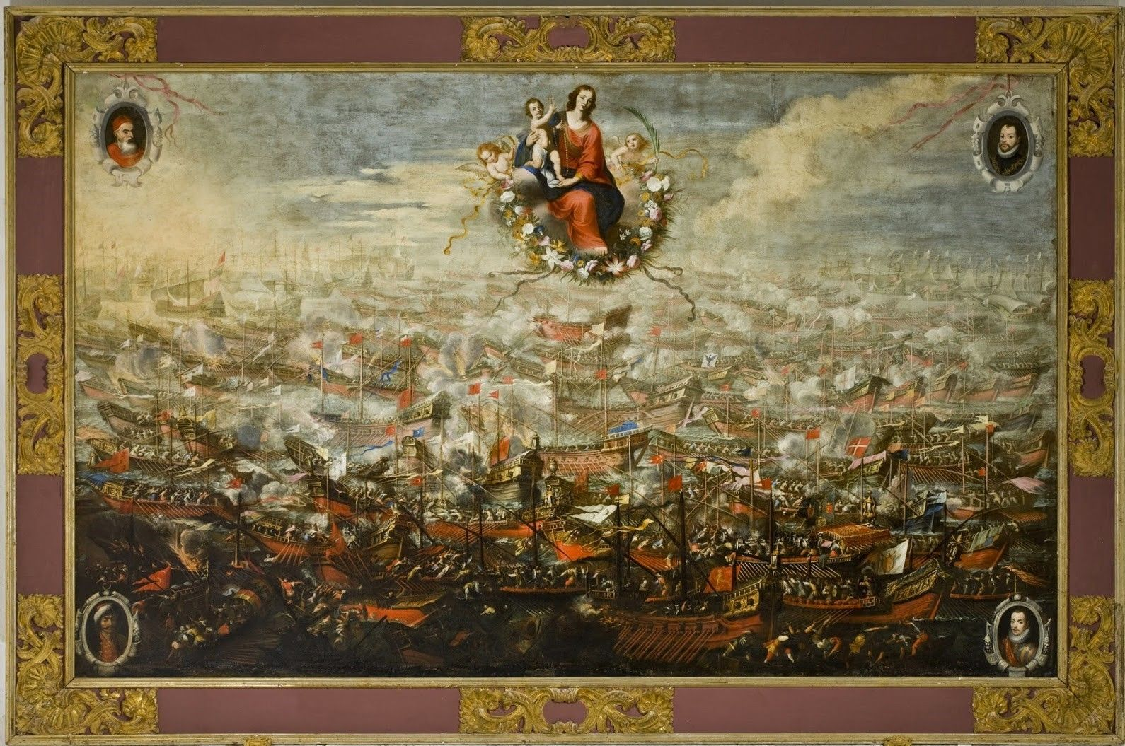 Battle of Lepanto, by Juan de Toledo y Mateo Gilarte, 1663 - 1665